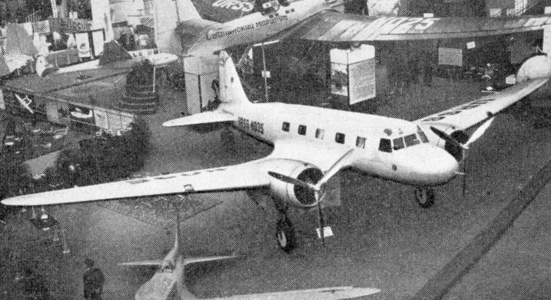 Tupolev ANT-35 photo from L'Aerophile December 1936